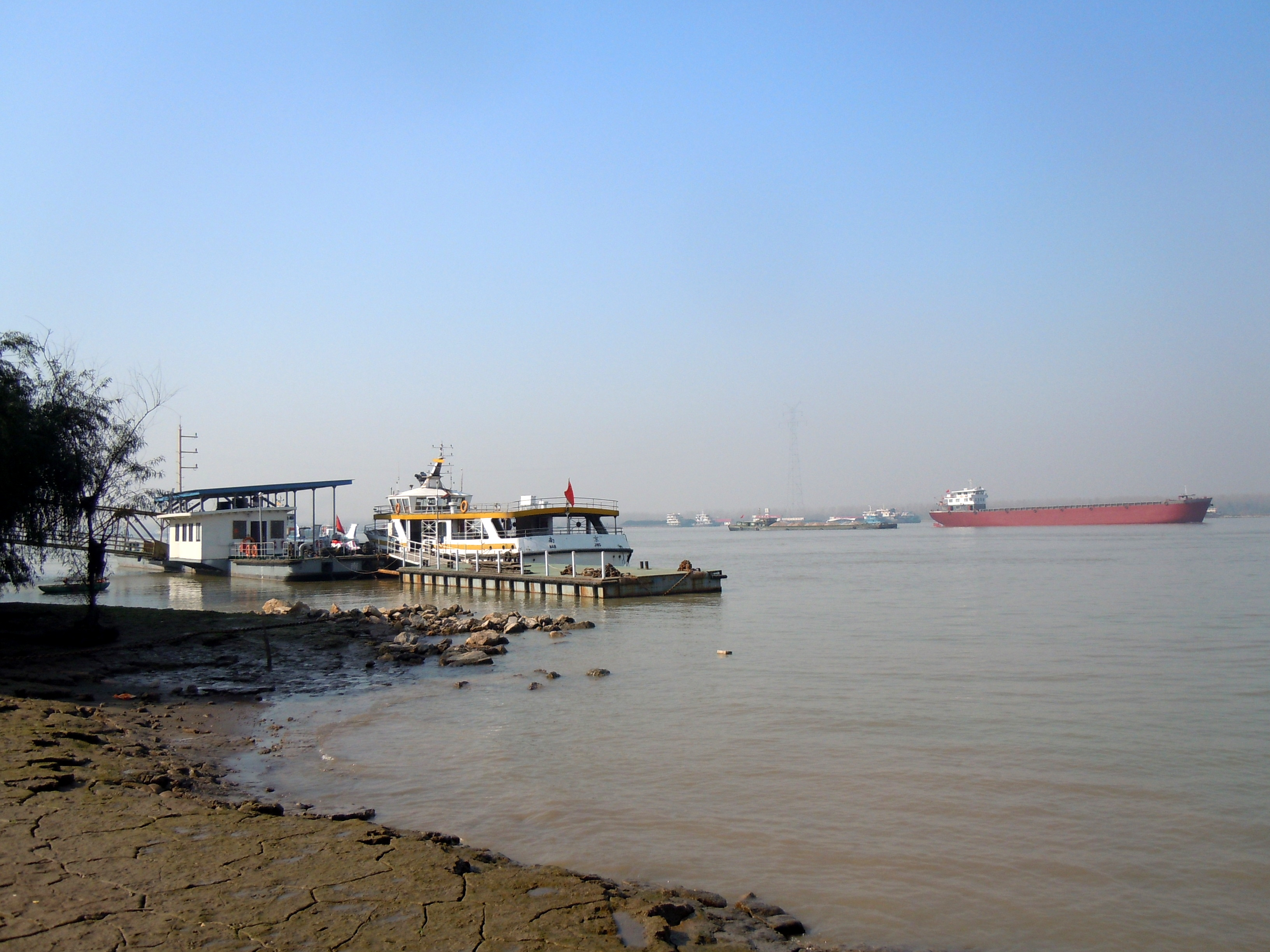 Chang Jiang (aka. Yangtze River) flowing through Swallow Rock, Nanjing.